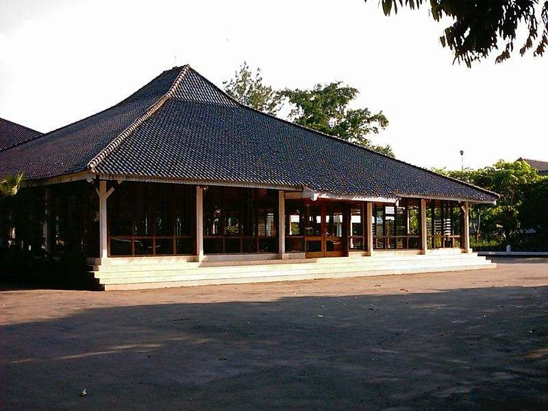 Pendopo (reception hall) of the Purwakarta county government office, West Java, Indonesia